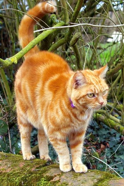 Thaxted cat